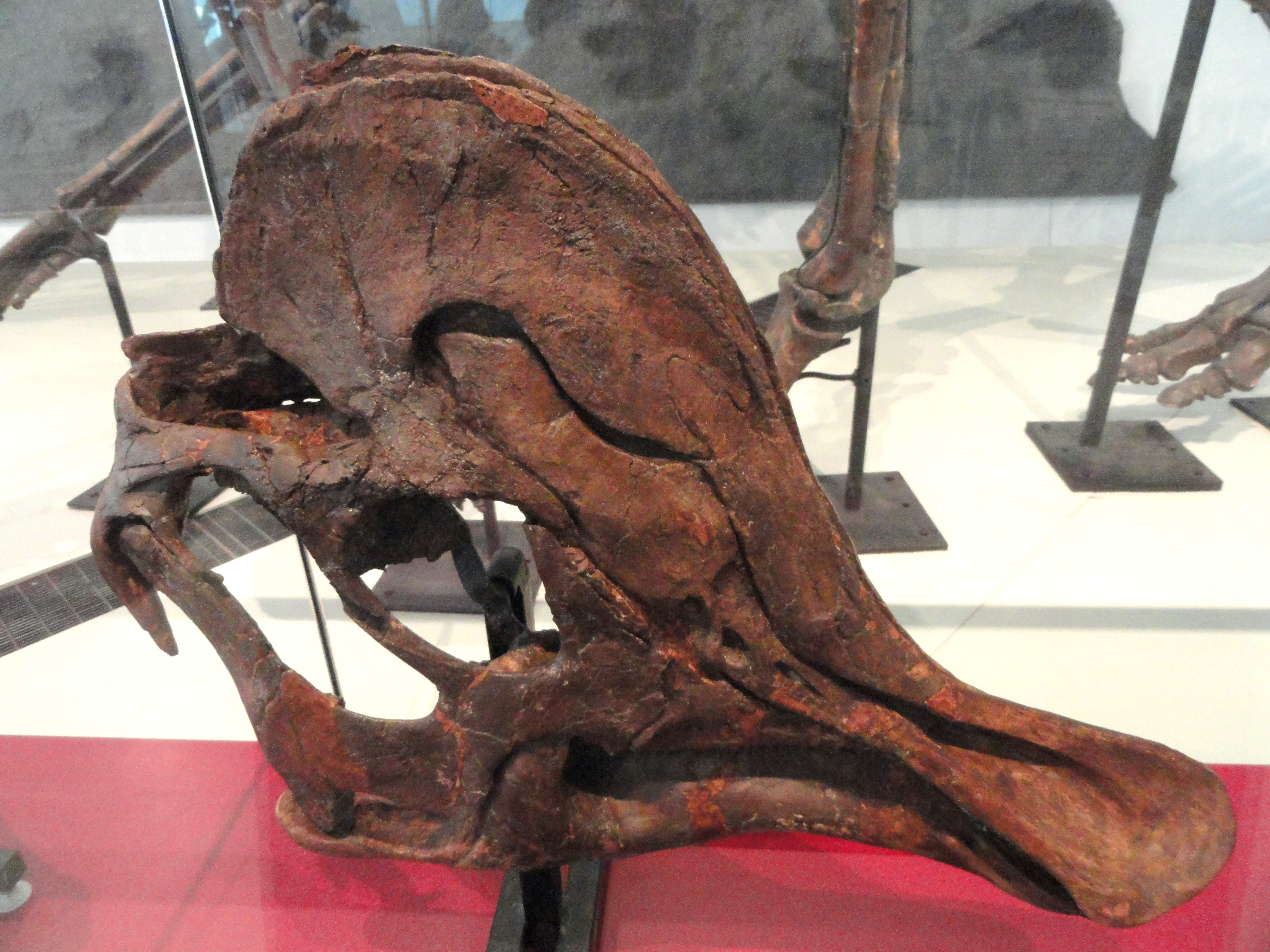 Exhibit in the Royal Ontario Museum, Toronto, Ontario, Canada. This exhibit is old enough so that it is in the public domain, and photography was permitted in the museum. I took this photograph and release it into the public domain.